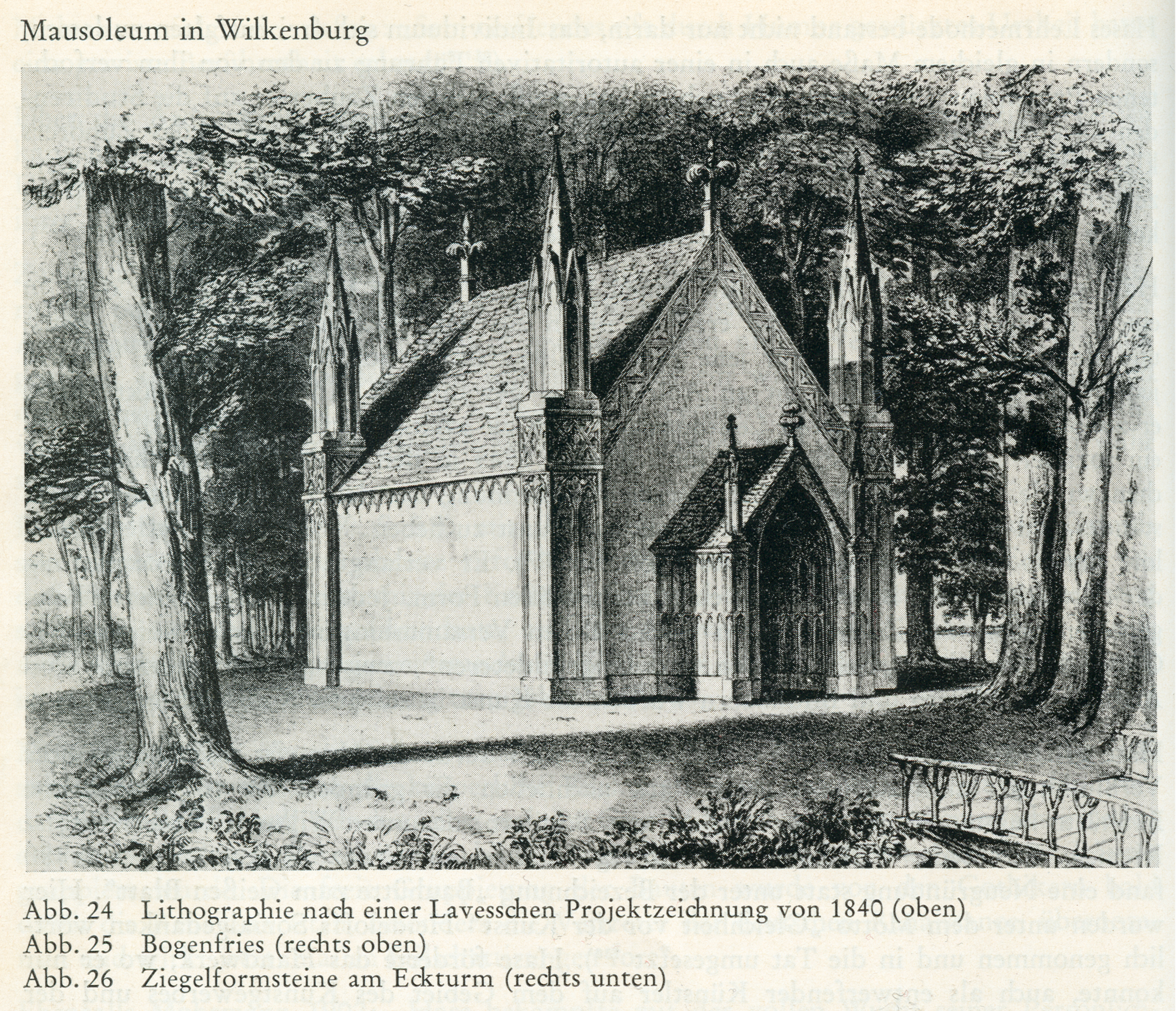 Before deconstruction and thievering till the 1950s